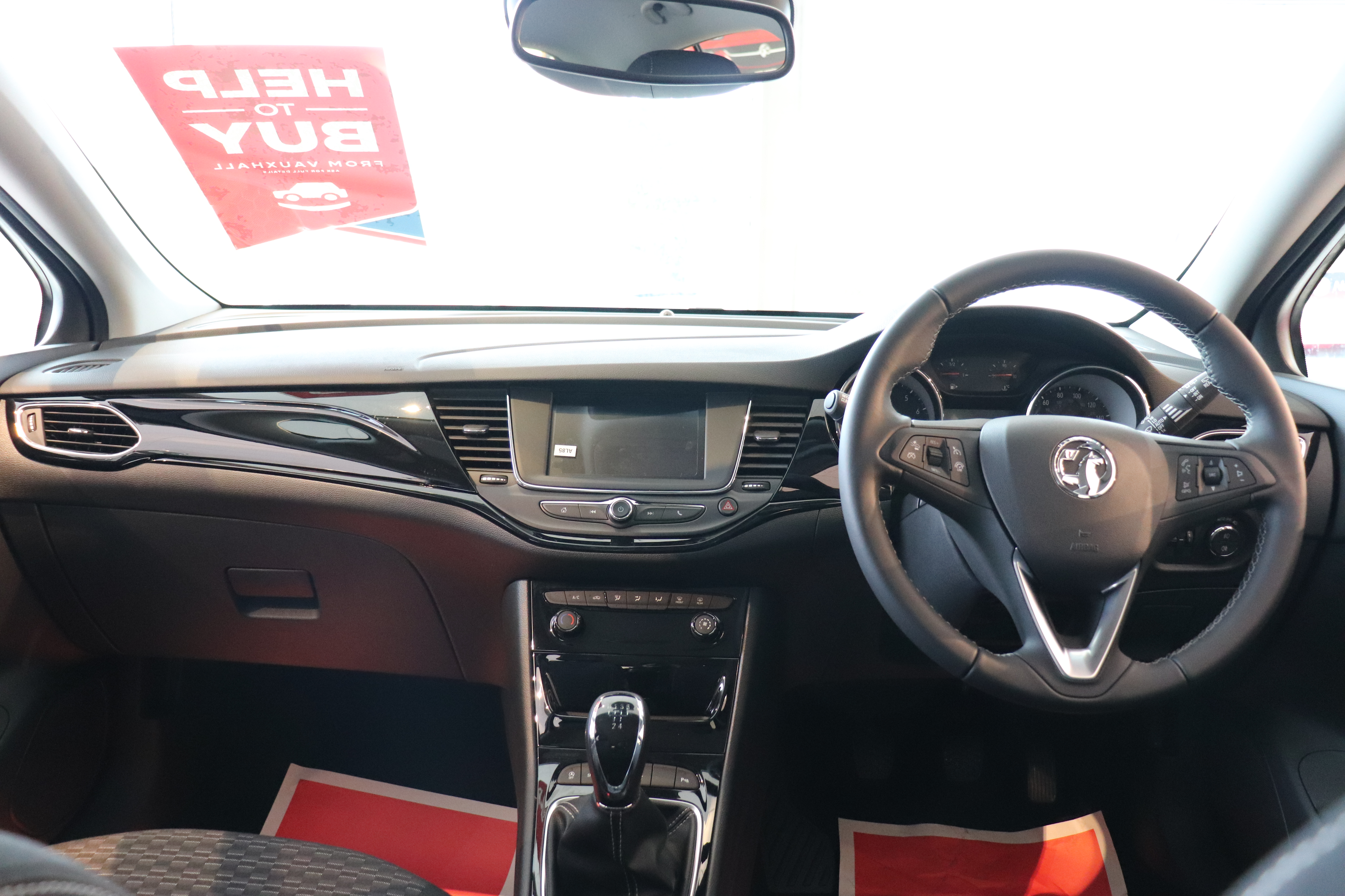 2018 Vauxhall Astra Interior Taken in Leamington Spa